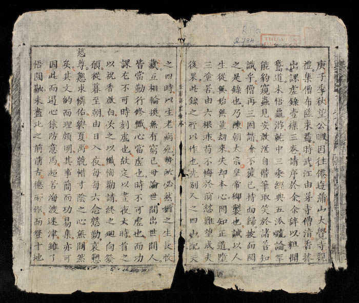 First page of Buddhist research & analyzing book by emperor Trần Thái Tông (1218-1277) written in chữ nho.